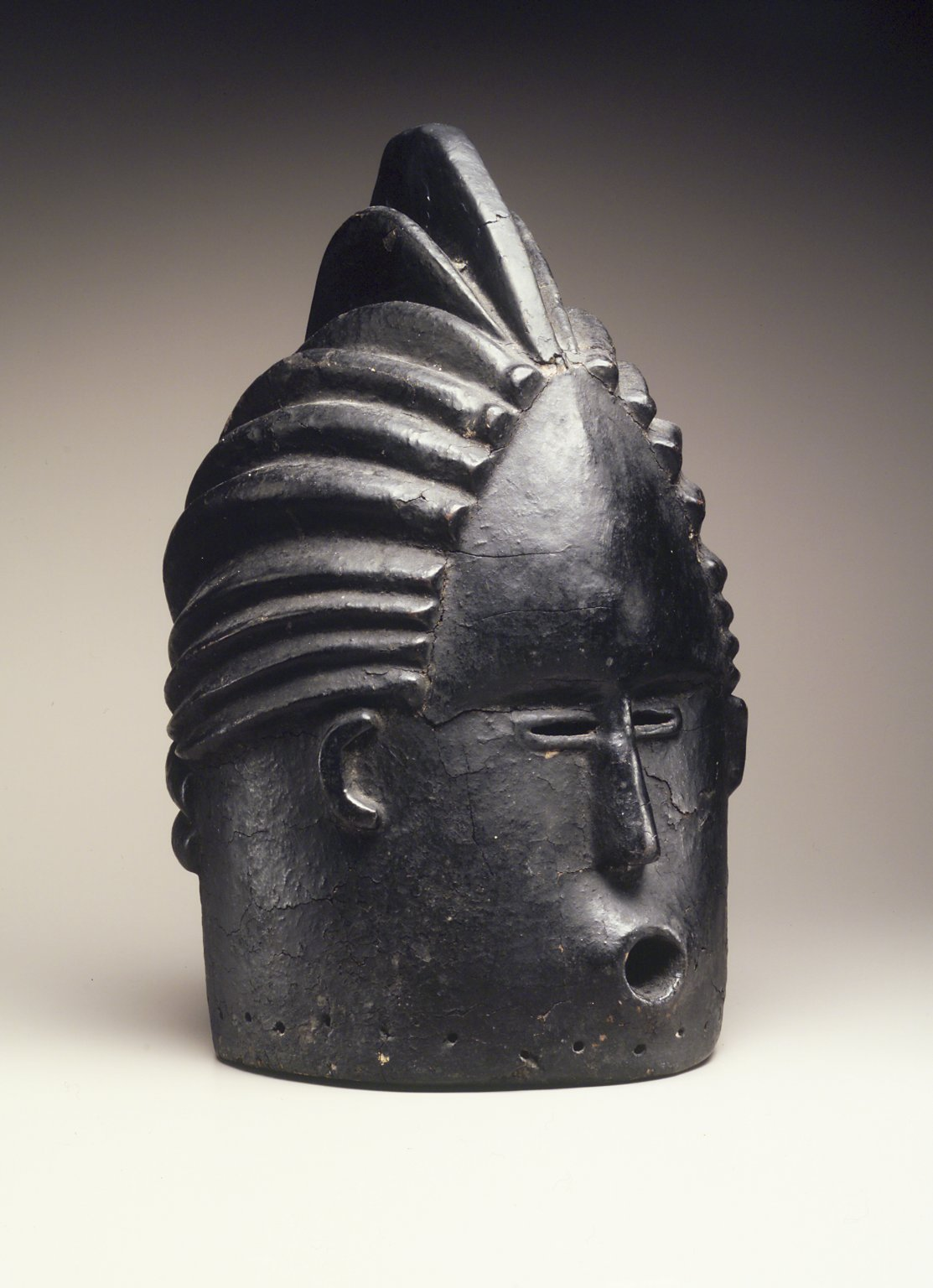 Head with C-shaped ears, small slit incised eyes, and open circular incised mouth. Headdress consists of parallel corn rows positioned from front to back and parallel neck rings arranged horizontally across base of headdress in rear. In the back of the headdress, there is a knob-like form for each corn row. Below these terminals are two neck rings. The corn rows consist of three high ridges on the crown and eight lower ridges on either side of the crown. The mask has been coated with tar to darken it. Around the base are several small holes for fastening. Condition: General condition good; however many small cracks in tar coating.